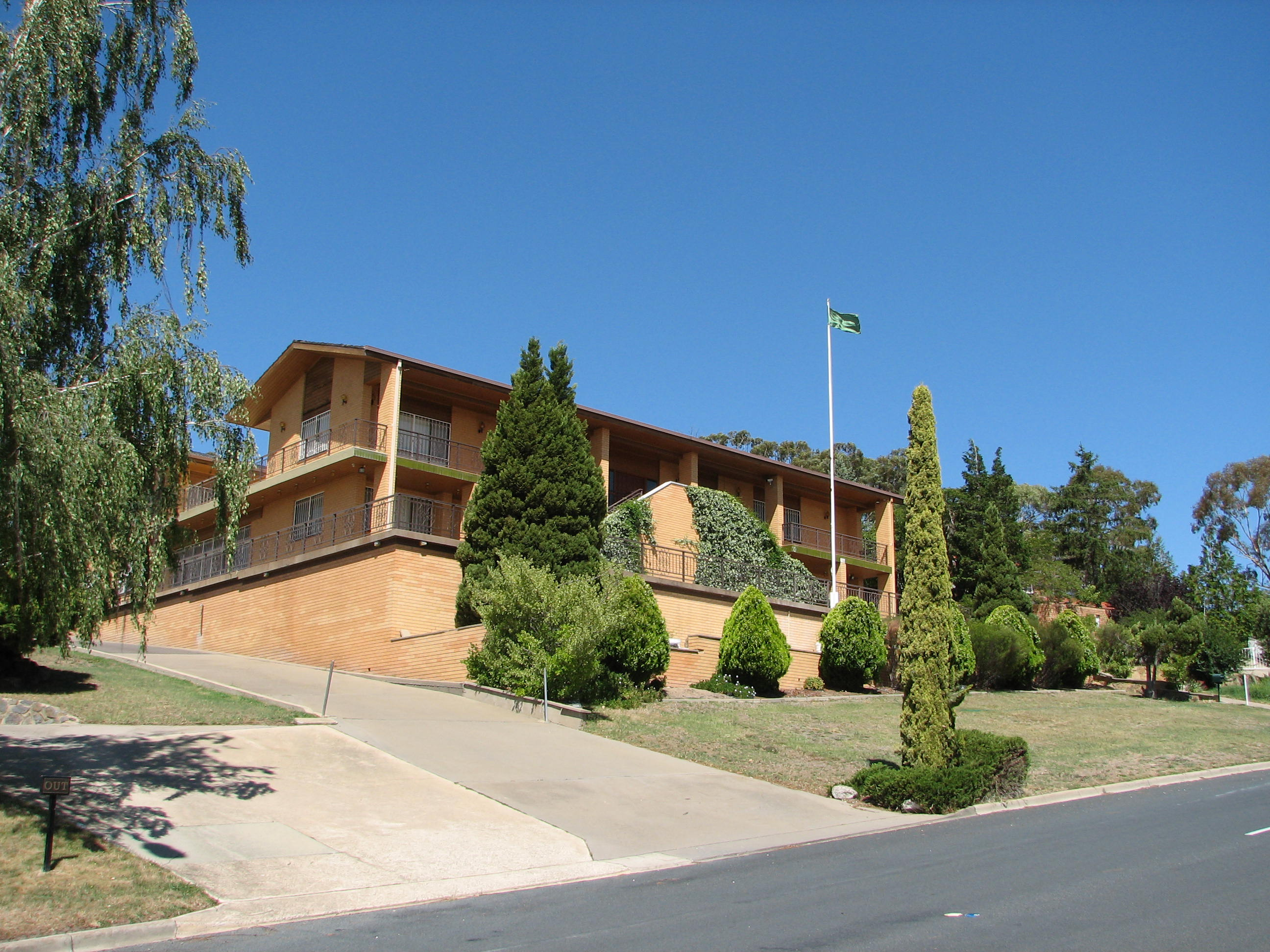 The embassy of Libya located in O'Malley, Australian Capital Territory, Australia. Taken by me - Tim Malone - on 20th January 2007.